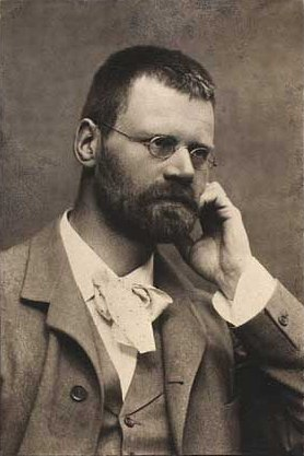 Axel Olrik (1864-1917), Danish folklorist and philologist